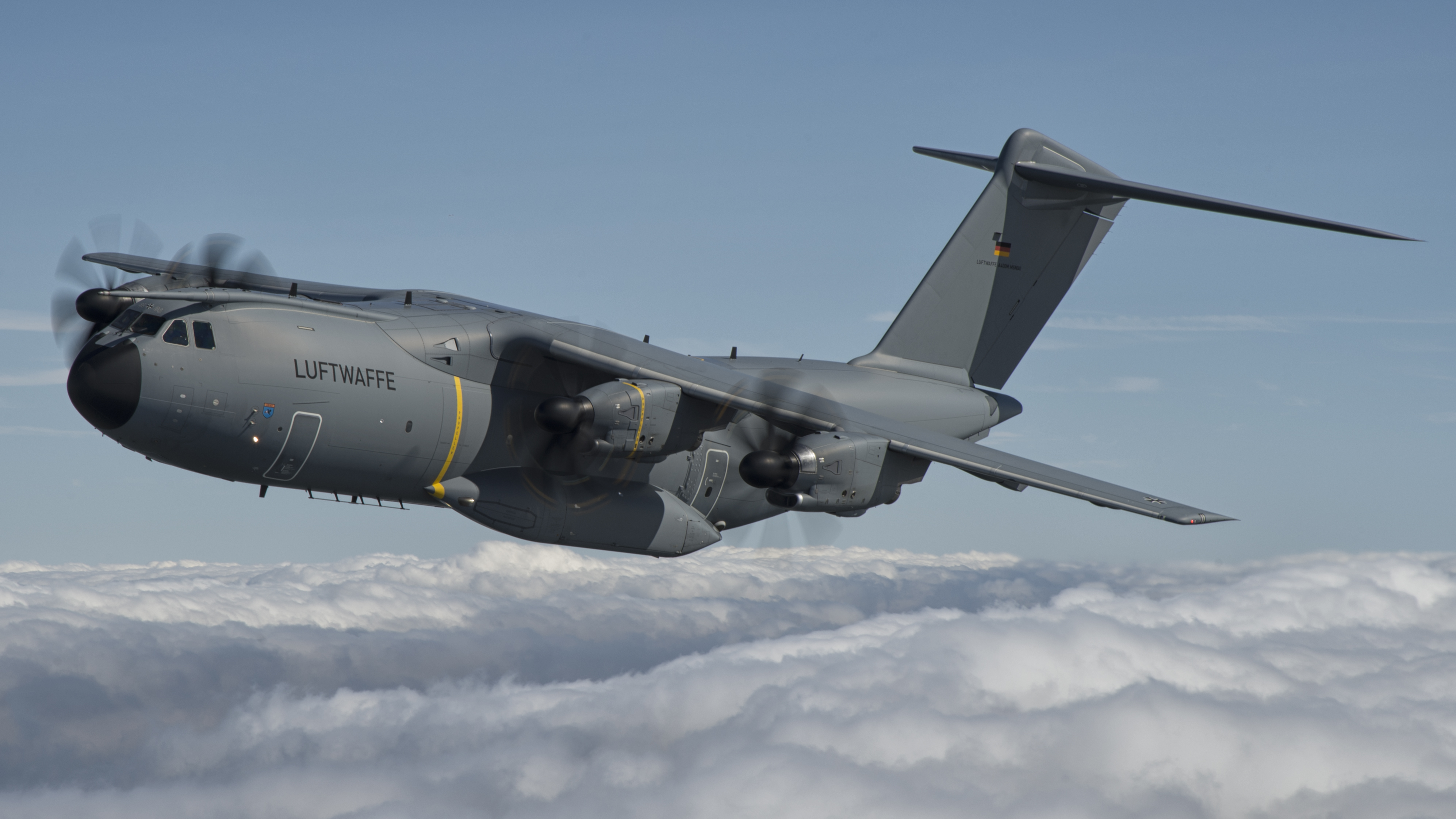 Air-to-air with the German Air Force Airbus A400M (54+06)